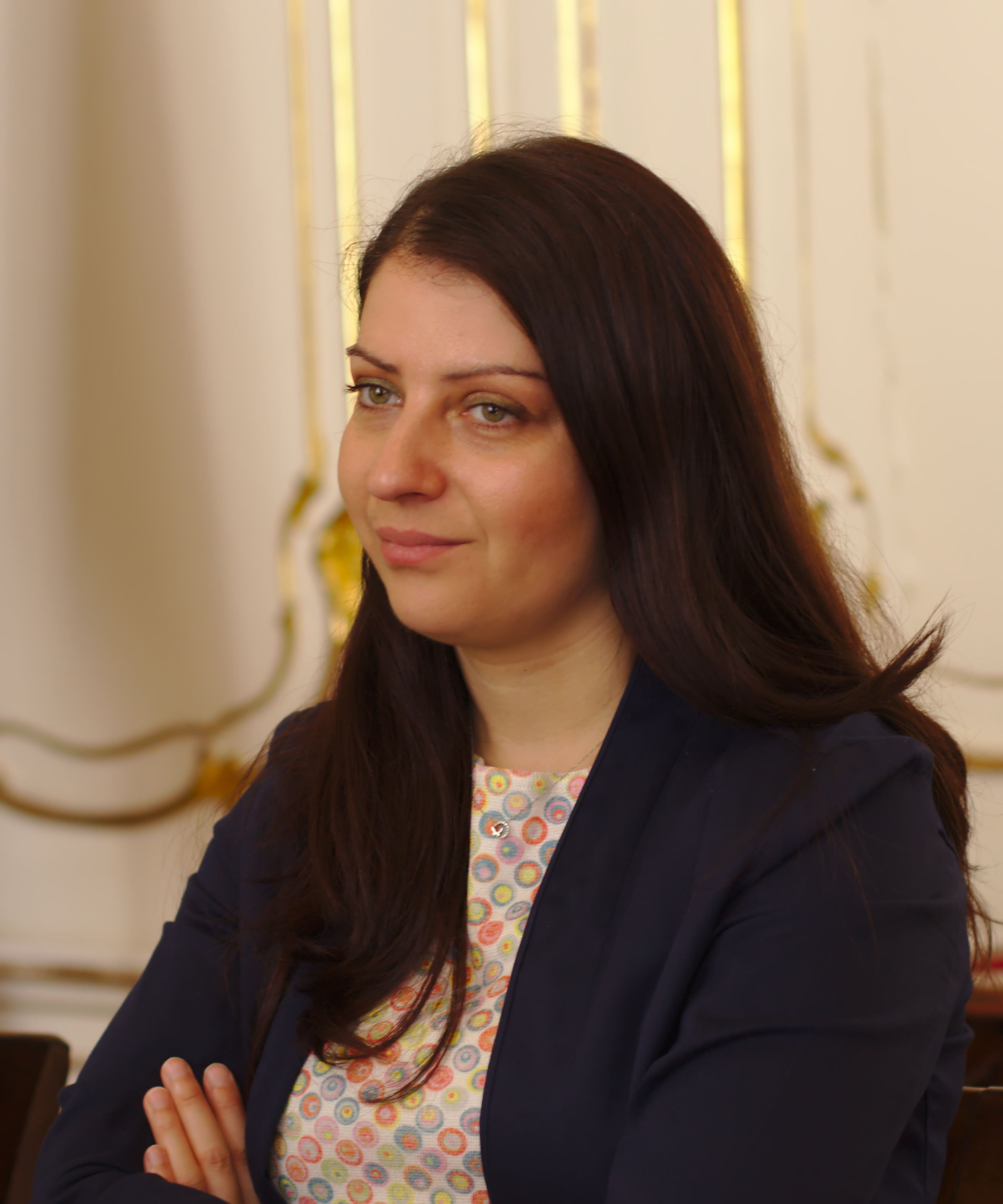 The Austrian State Secretary in the Federal Chancellery Muna Duzdar during a meeting with the Chair of the Wikimedia Foundation Board of Trustees Christophe Henner and Wikimedia Österreich's Executive Director Claudia Garád on May 22, 2017.